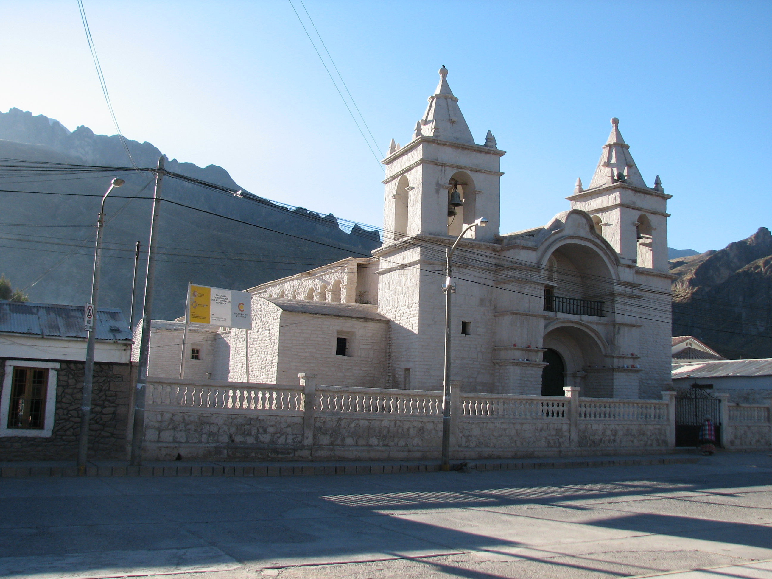 Church in the village of Chivay, Peru.